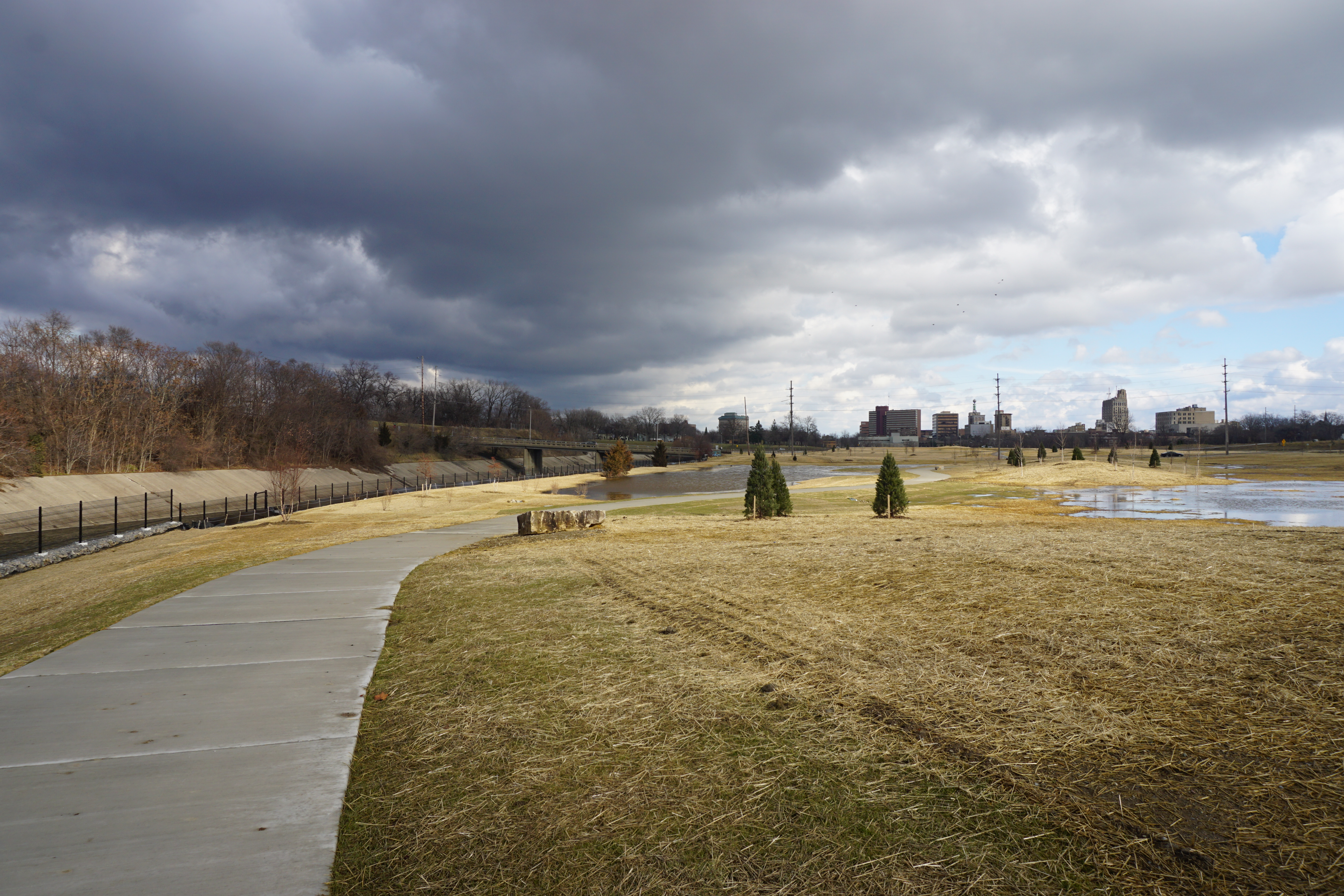 Chevy Commons in Flint, Michigan (United States).